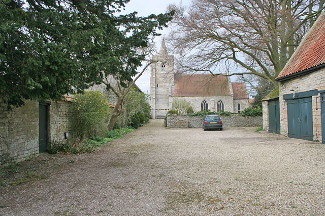 Yard outside the manor house at Sapperton, Lincolnshire, seen from the south, with St Nicholas' parish church in the background